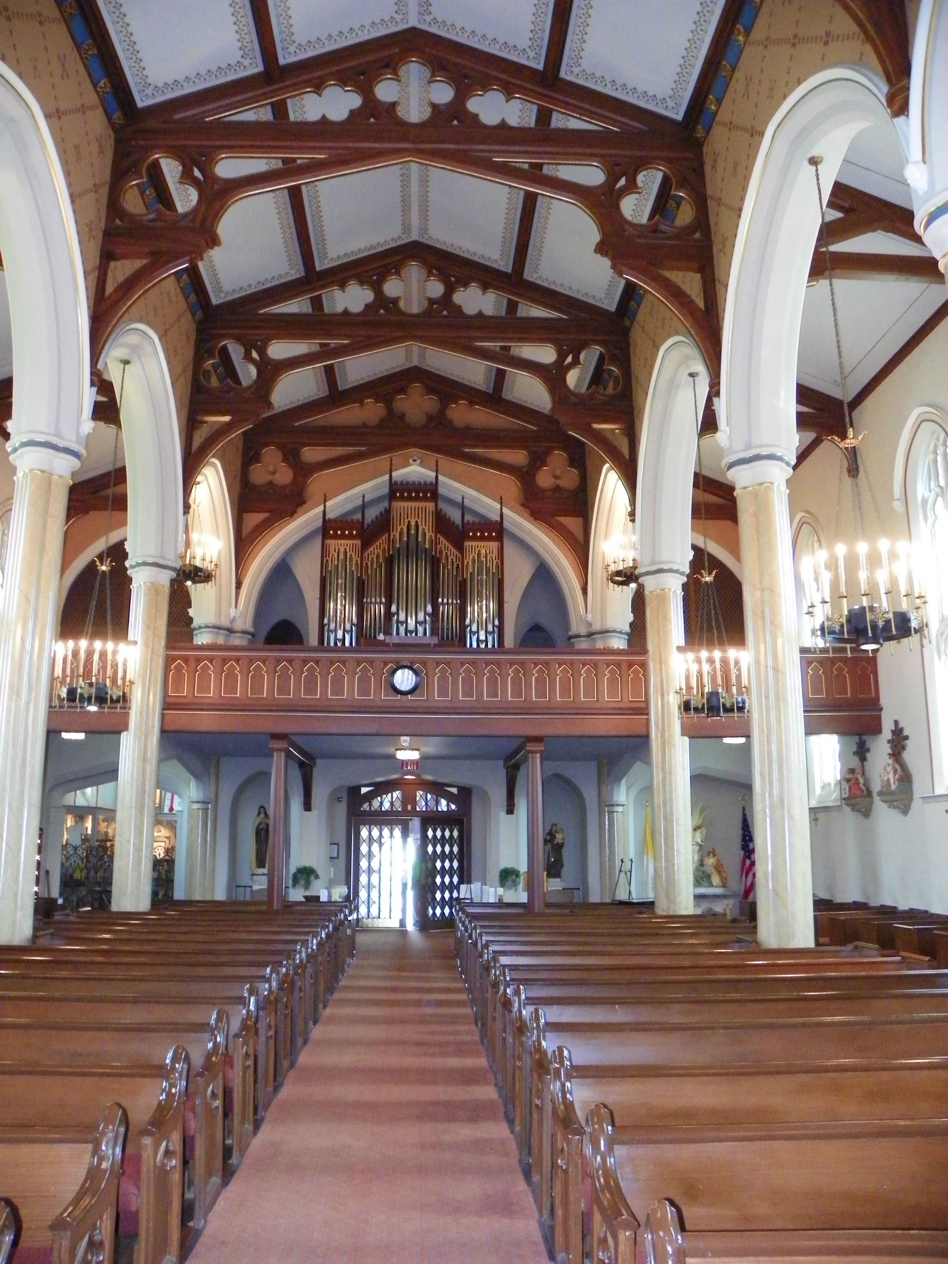 St. Vincent De Paul, Cape Girardeau, Missouri interior